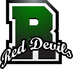 Ridge HS Team logo draft